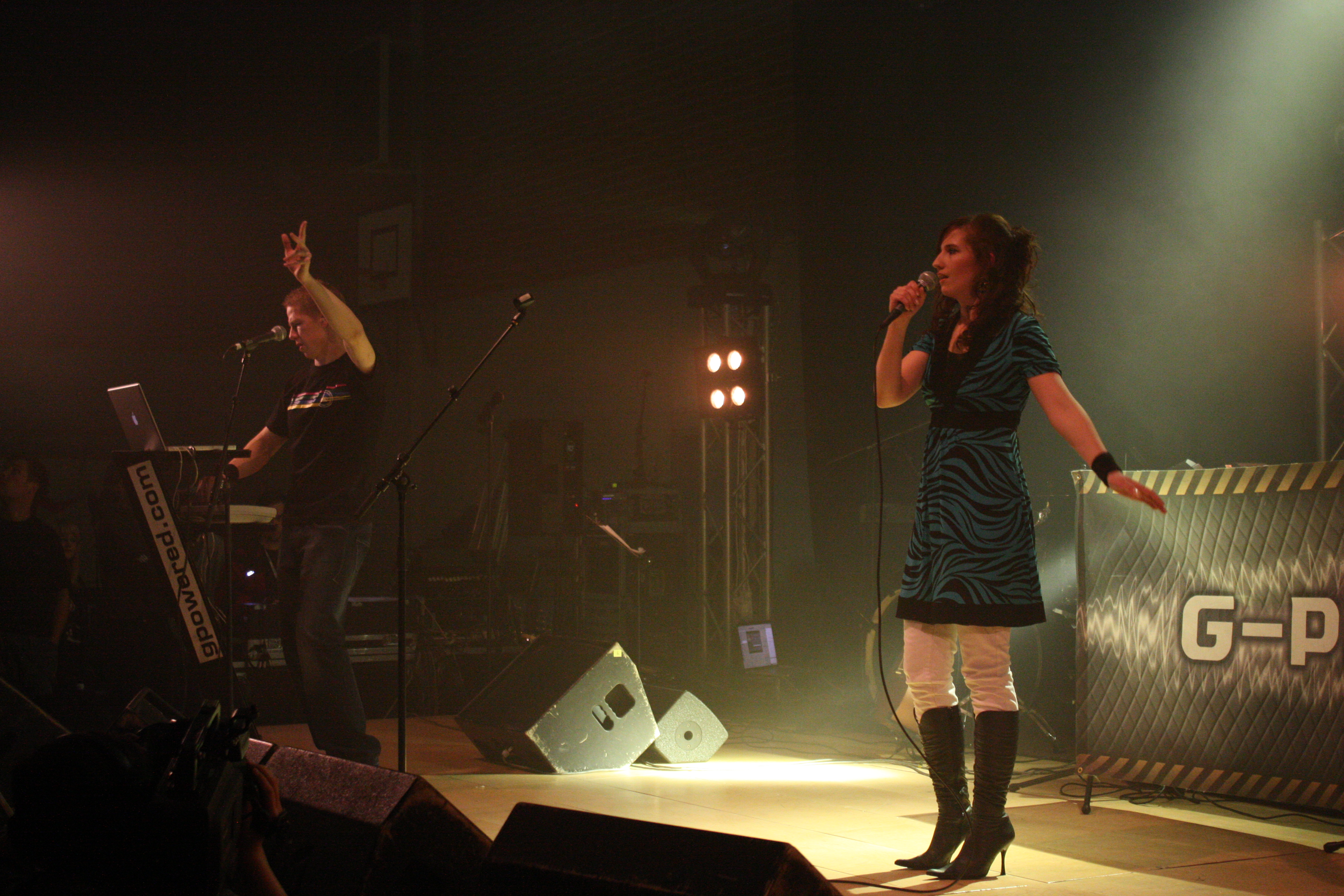 Finnish Christian Eurodance band G-powered. Singer Miia Rautkoski, producer Kimmo Korpela.